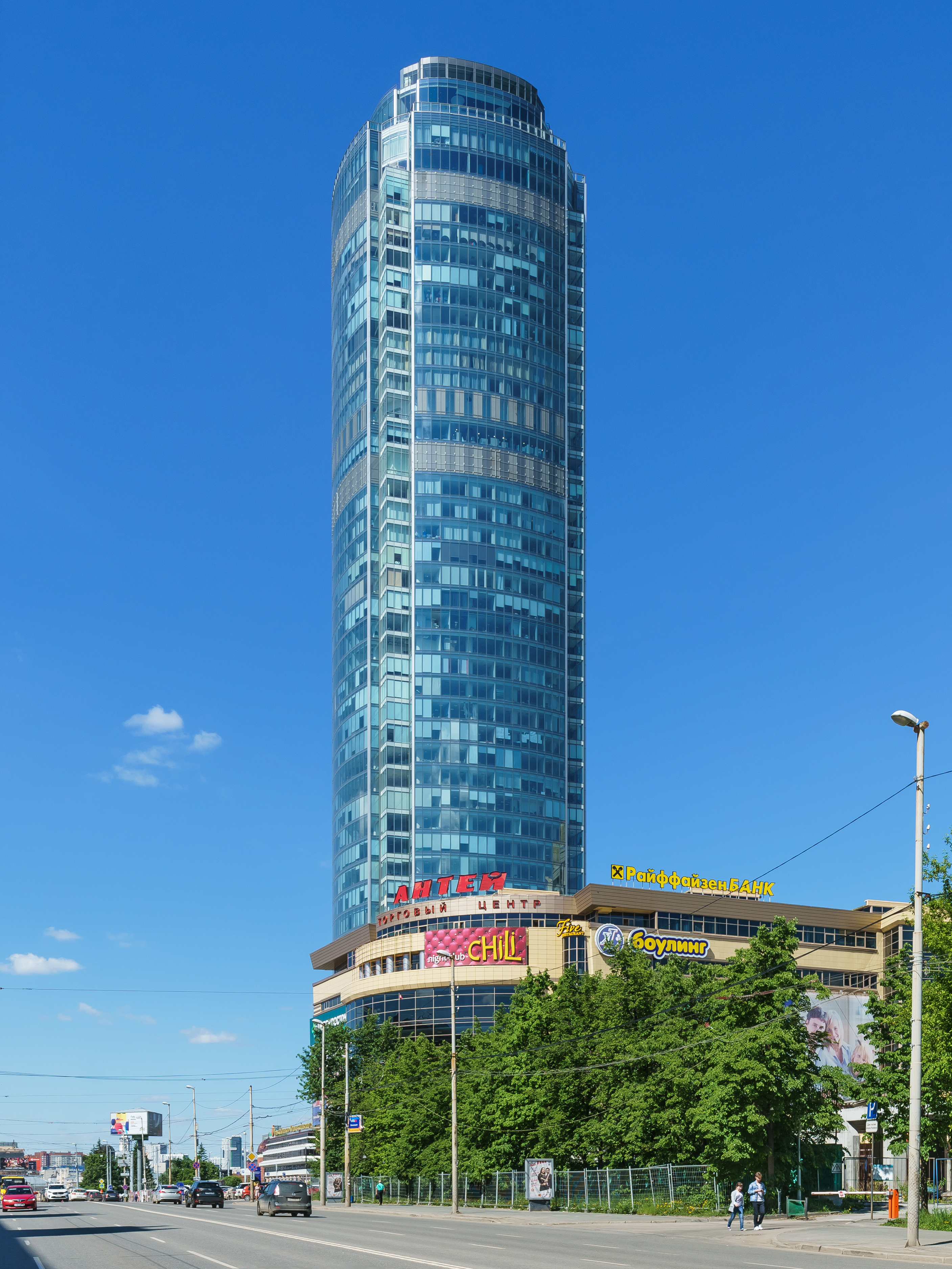 VysotSky Tower in Ekaterinburg, Russia